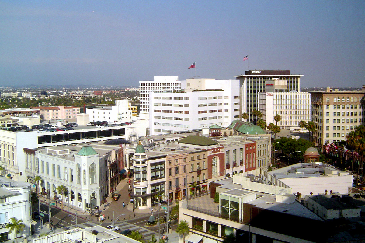 Beverly Hills Skyline from a nearby highrise. The Busiest part of the city is seen where Rodeo Drive and Wilshire meet. June, 2005.